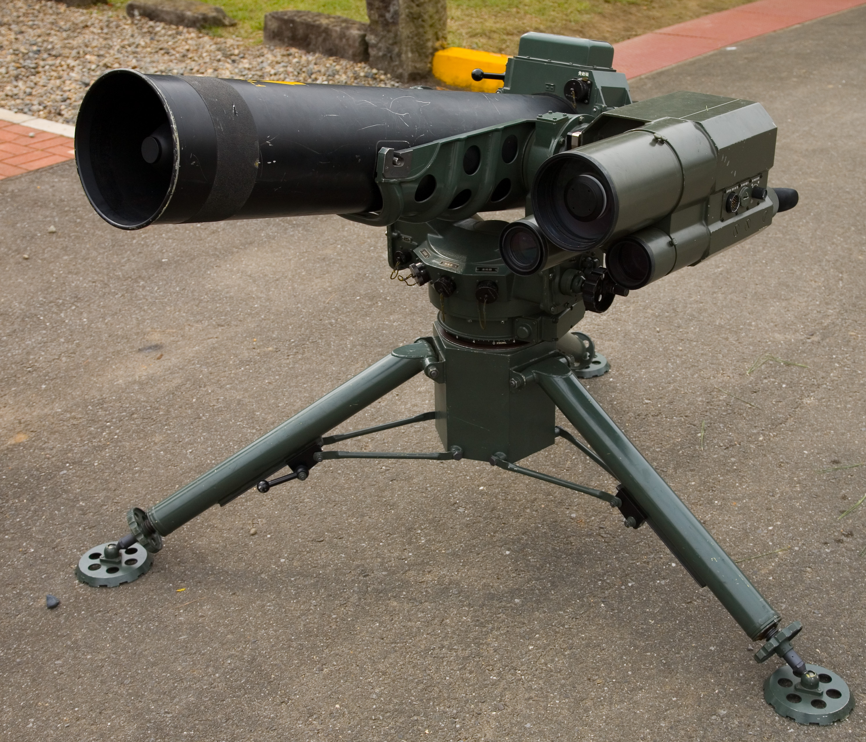 A Japanese Type 79 Anti-Tank Missile, taken at an Tsuchira army base open day.